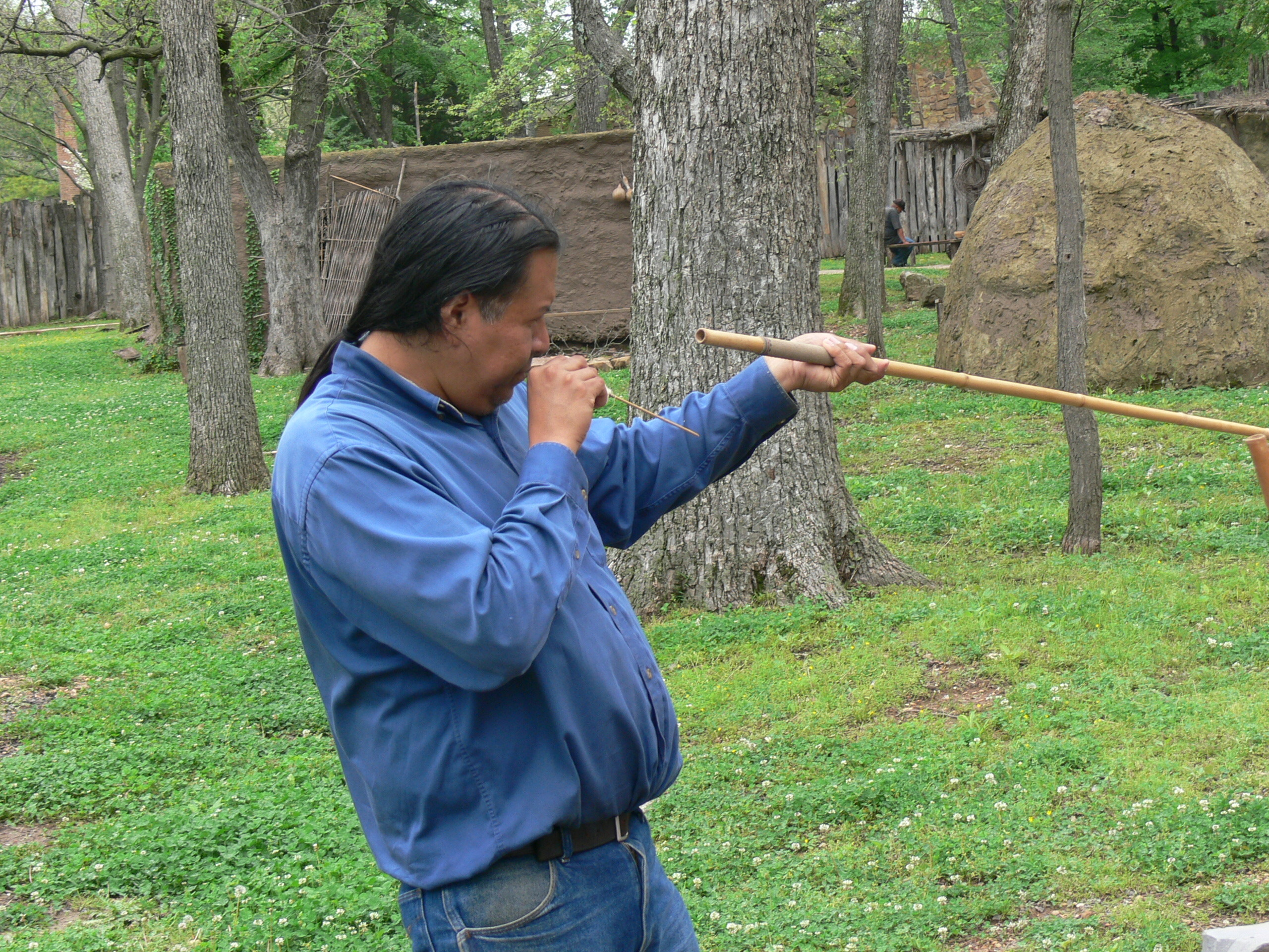 Cherokee Heritage Center ( Tahlequah, Oklahoma ). Ancient village ( 17th century ): Putting an arrow into a blowgun.